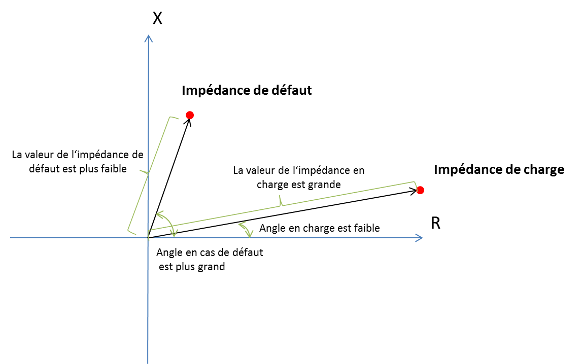 Principle of a distance protection relay.